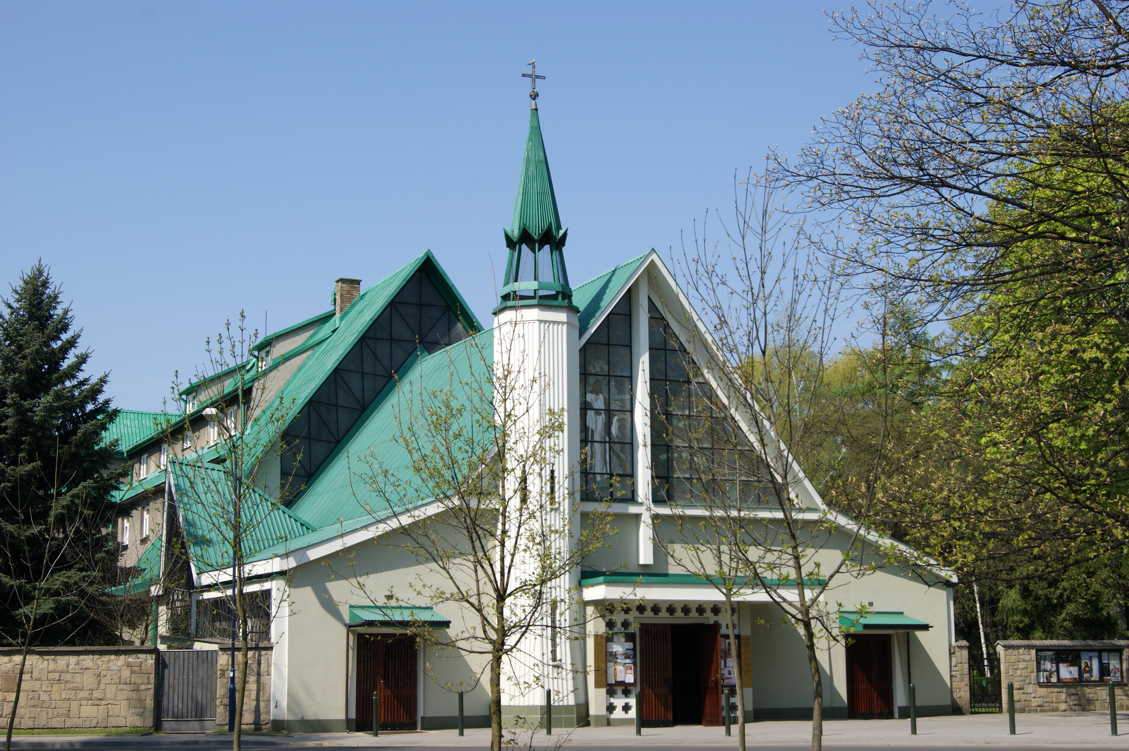 Holy Name of Mary Church, 1 Dzielskiego street,Krakow,Poland